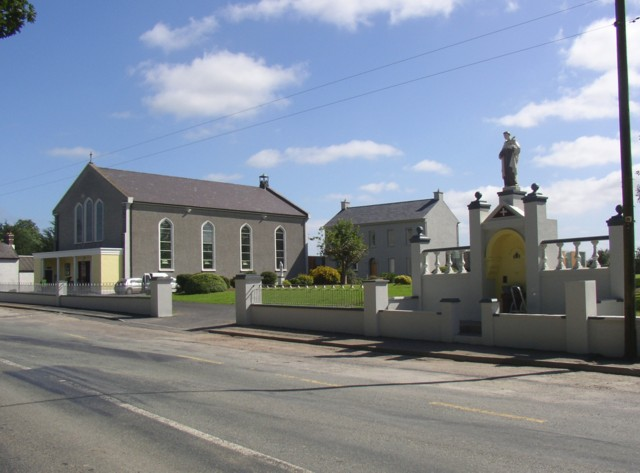 Knocktopher Church and statue of St Albert, Co.Kilkenny. The architecture of this Roman Catholic church is quite similar to that of some Methodist and Baptist chapels - simple elegance with tall round-headed windows.